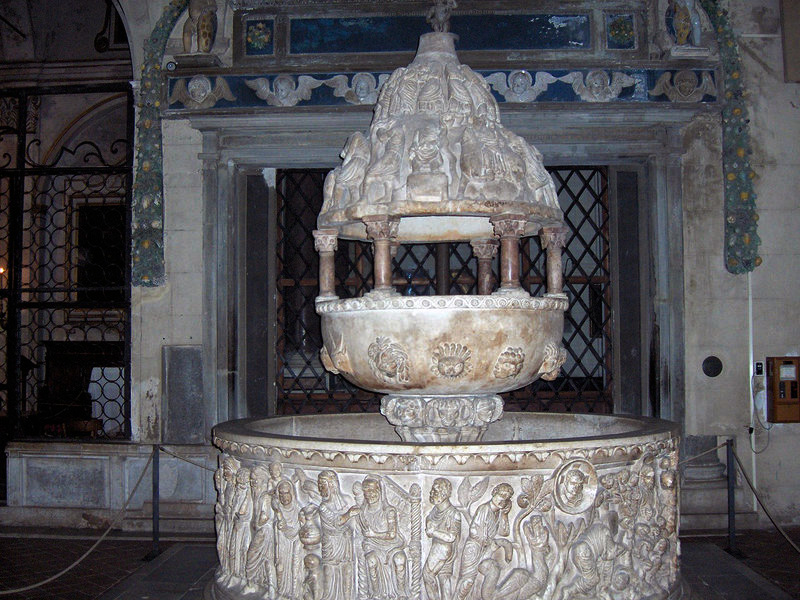 Baptismal font in the basilica of San Frediano; Lucca, Italy Own photo - photo made by Georges Jansoone on 10 October 2005